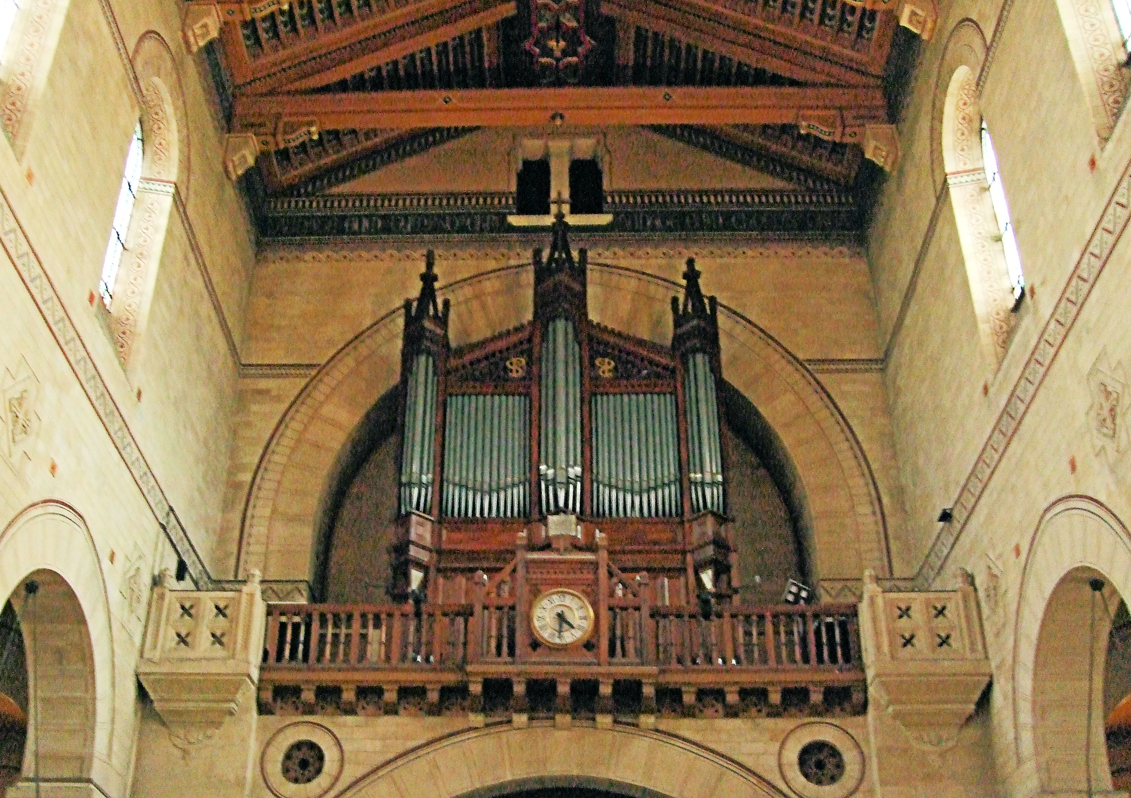 The Organ Of The Church Saint-Pierre-de-Montrouge - Paris.